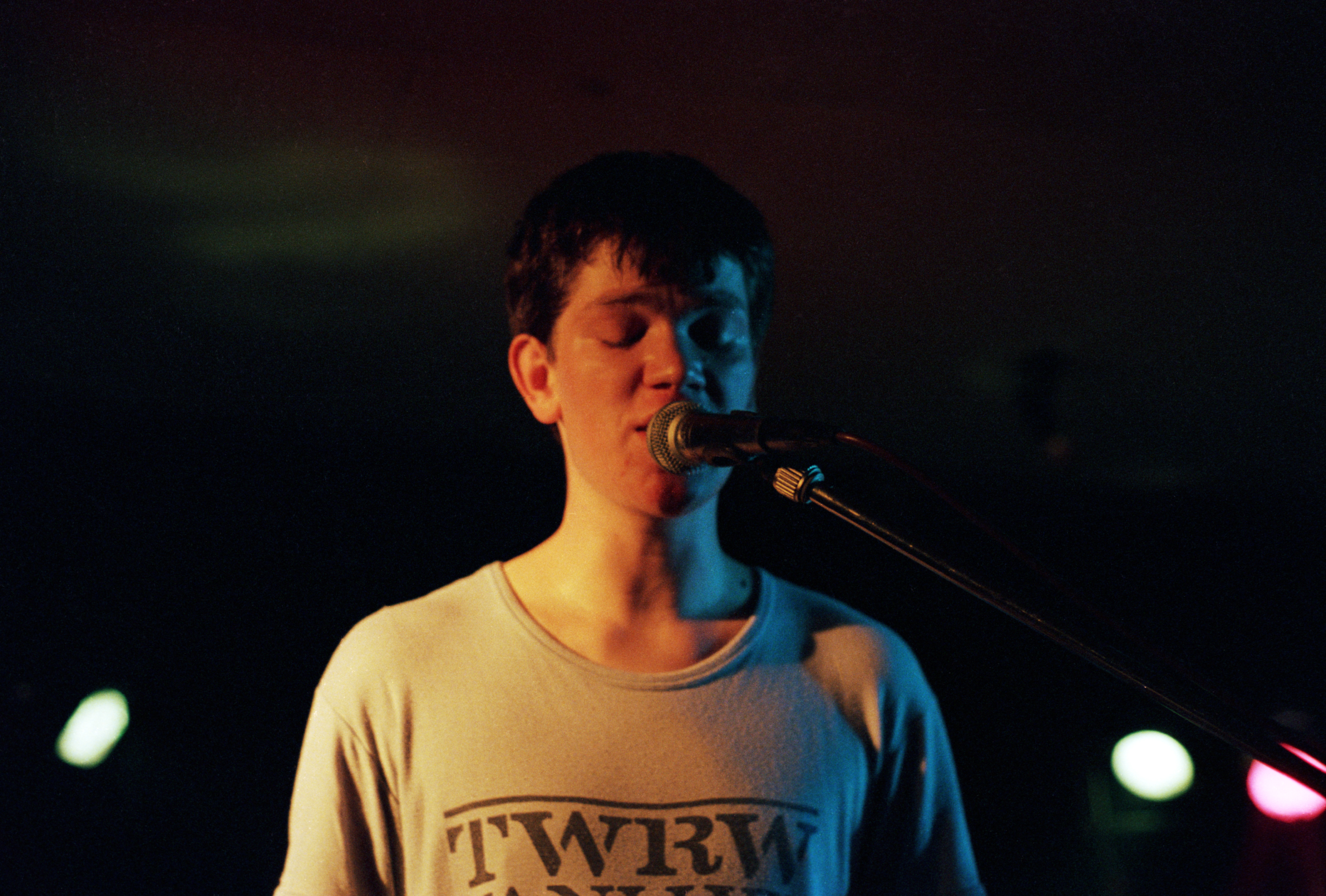 Ffenestri. Roc ystwyth music festival , Neuadd yr Undeb, Aberystwyth University, August 1986. Image by Medywn Jones